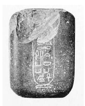 Weight stone bearing the cartouche of Nebkau(re) Khety: [nesu]t [bi]t Khety Nebkau ankh djet - "[Lord of Upper and Lower Egypt] Khety Nebkau, may he live forever". Red jasper, from Tell el-Rataba in the Nile Delta, 9th-10th dynasty, First intermediate period. Petrie Museum UC 11782.